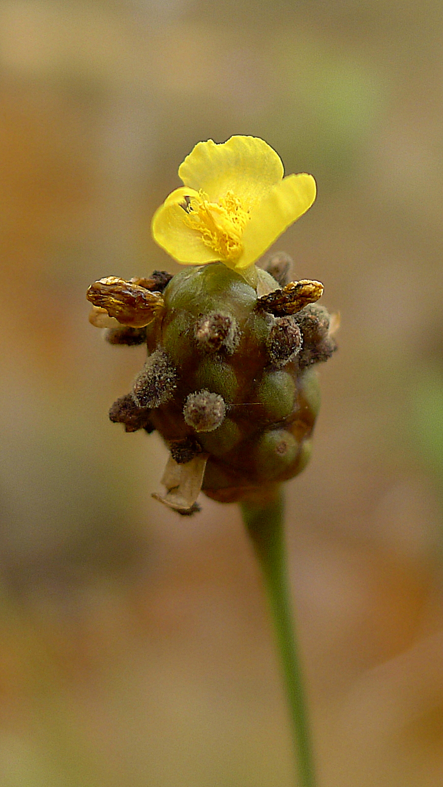 Xyris jupicai Rich., Xyridaceae, Atlantic forest, northeastern Bahia, Brazil Herb to 50 cm. Aquatic environment. Popovkin & Mendes 1258 (HUEFS).